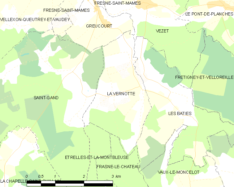 Map of French municipality